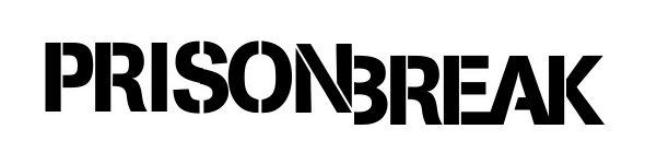 Logo of TV series Prison Break